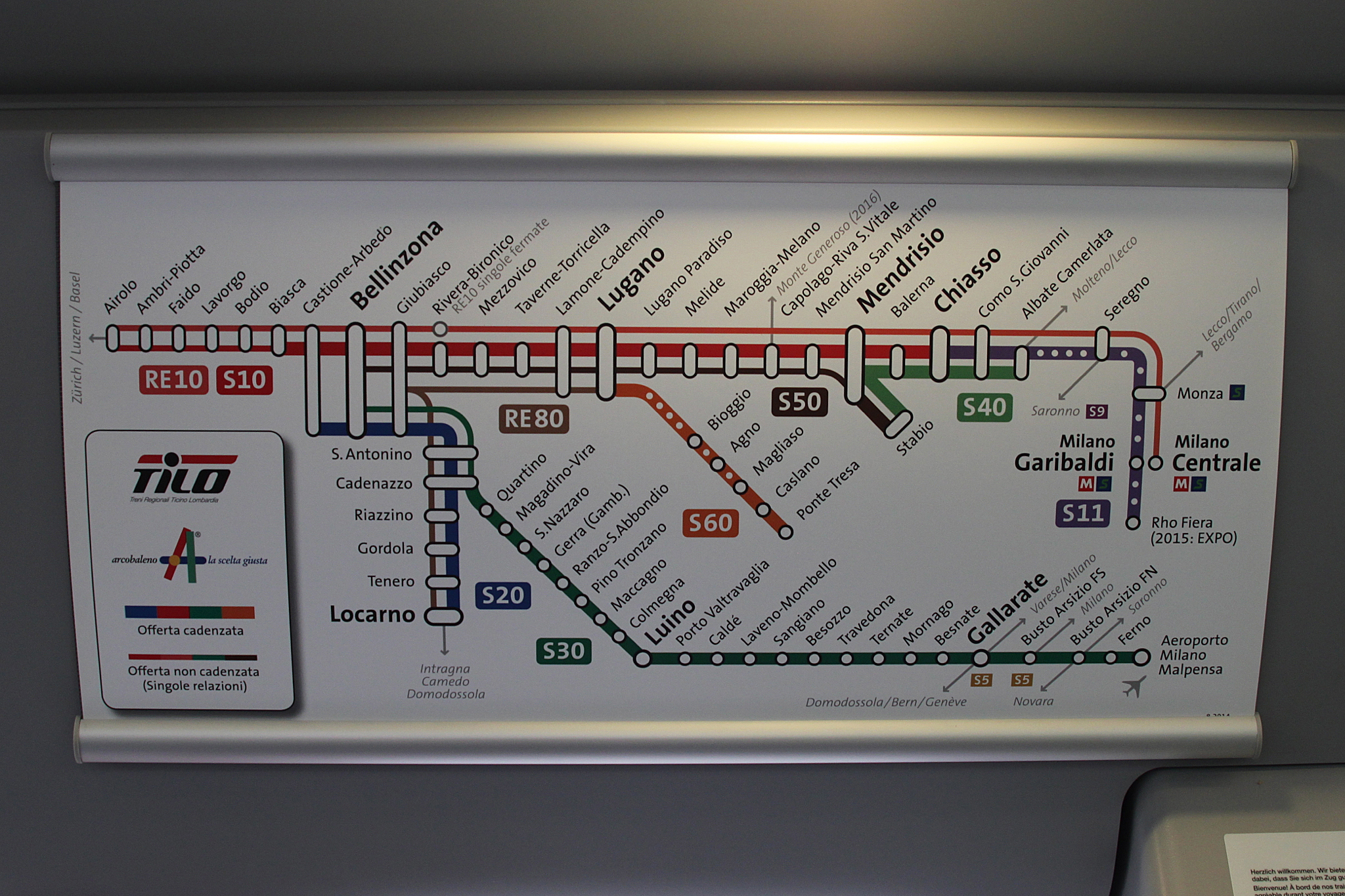 Map of Ticino rapid transit network inside SBB CFF FFS RABe 524 014.